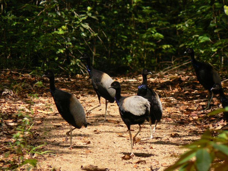 Group of Psophia crepitans